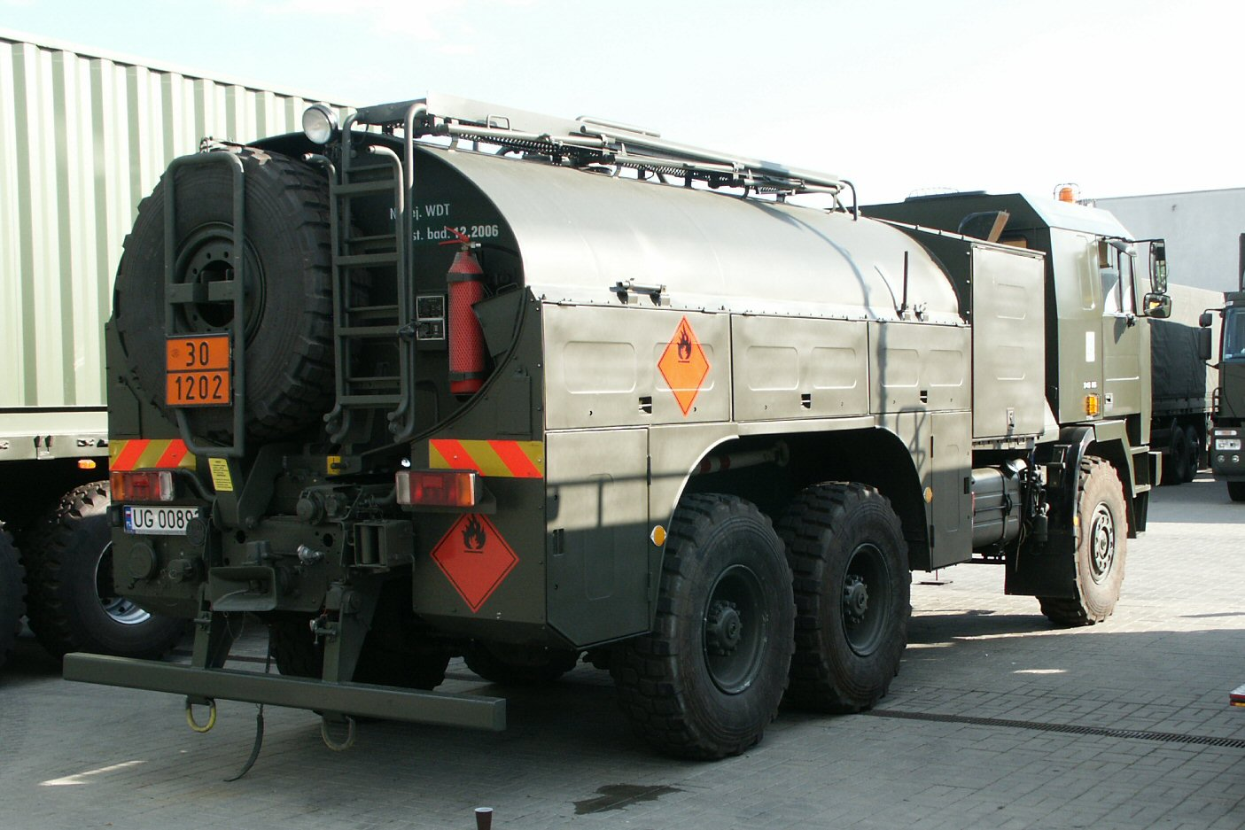 Polish Army Jelcz P662D.43 tanker truck.